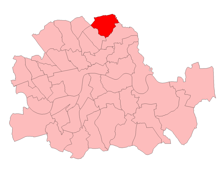 A map of Stoke Newington and Hackney North constituency within the London County Council area, as it existed from 1955 to 1974.